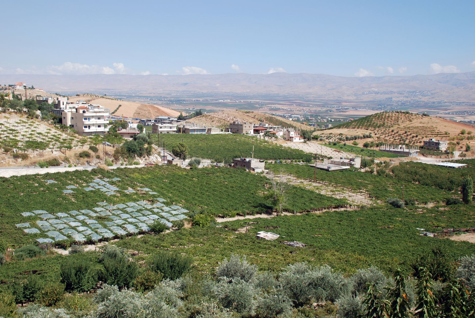 grapes in vineyard below village of Qsarnaba, in Beqaa Valley near Zahlé, east Lebanon.